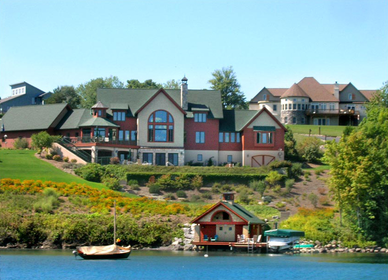 Paul Malo photograph